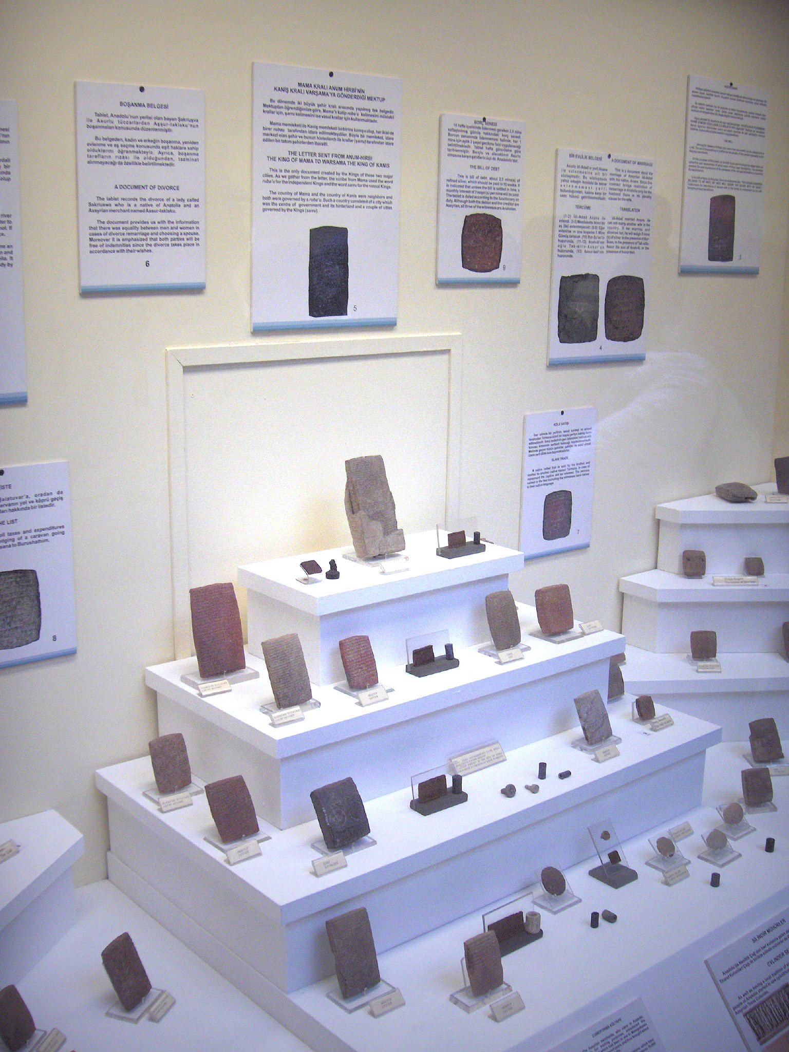 Cuneiform tablets with the important letter, found at Kültepe, from King Anum Hirbi (ruler of Mama) to Warsamas, king of Nesa; 1800-1700 BC; Museum of Anatolian Civilizations, Ankara, Turkey